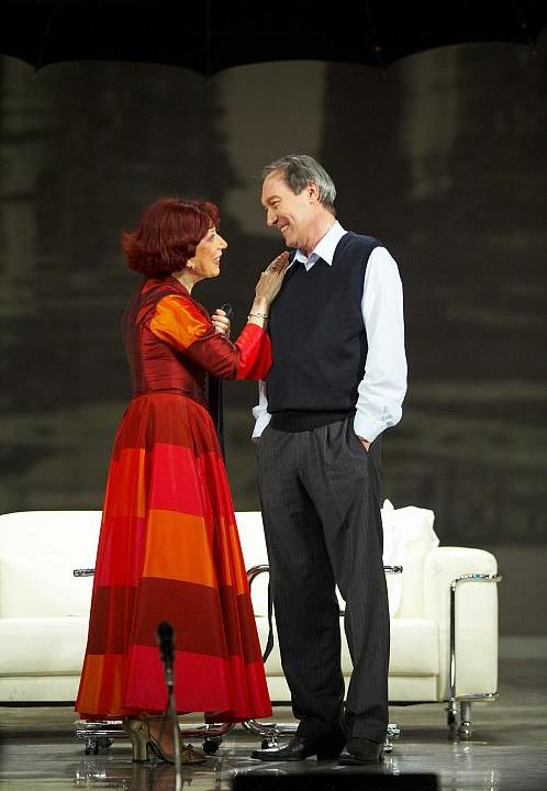 'ToutPaye' by Lenkom. Novosibirsk (Russia). Oleg Yankovsky and Inna Churikova